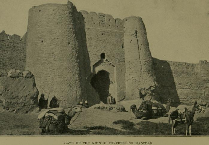 Ruined Gates of Haozdar, which is located in Sistan, Iran.